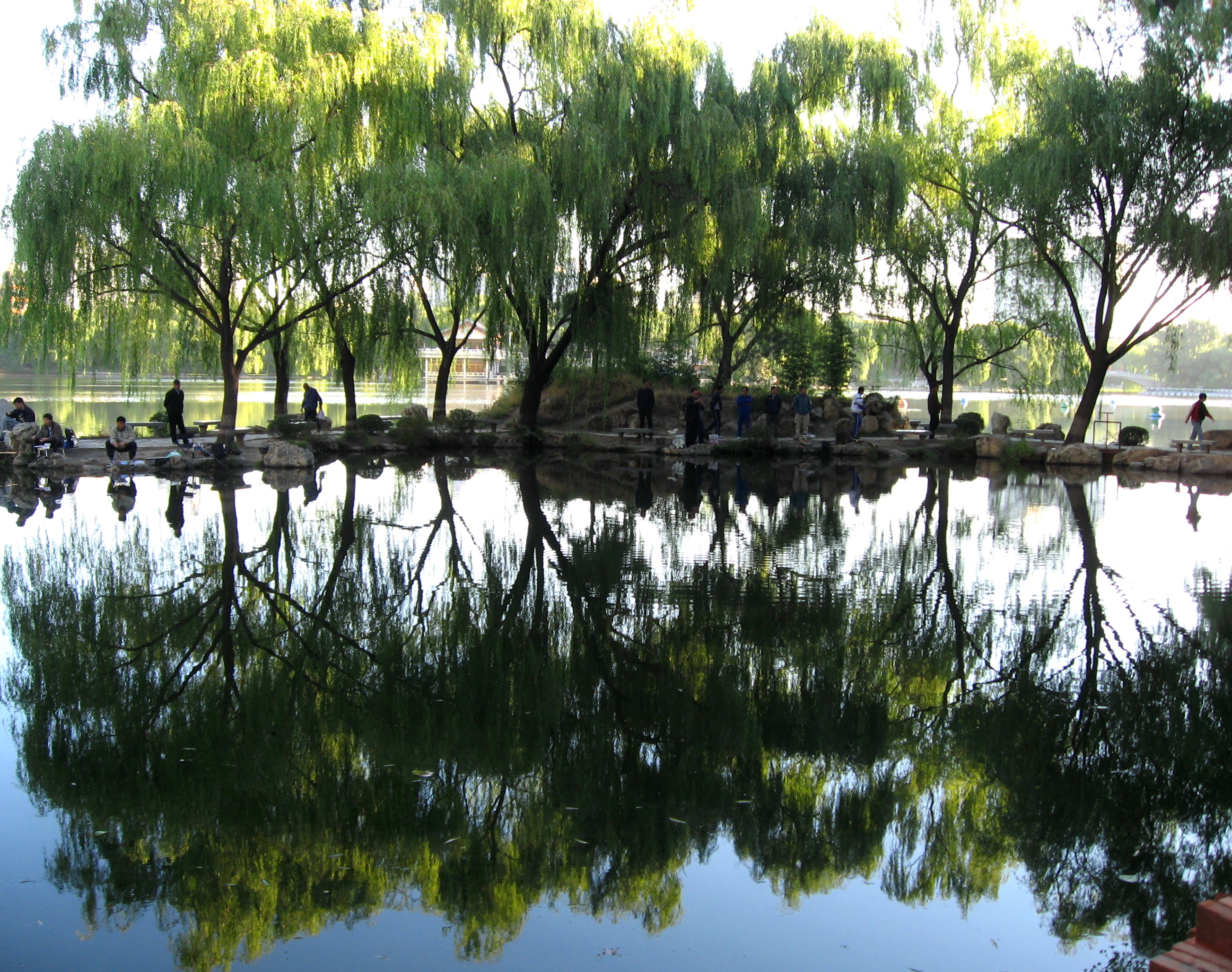 Purple Bamboo Park (Zizhuyuan) in Beijing